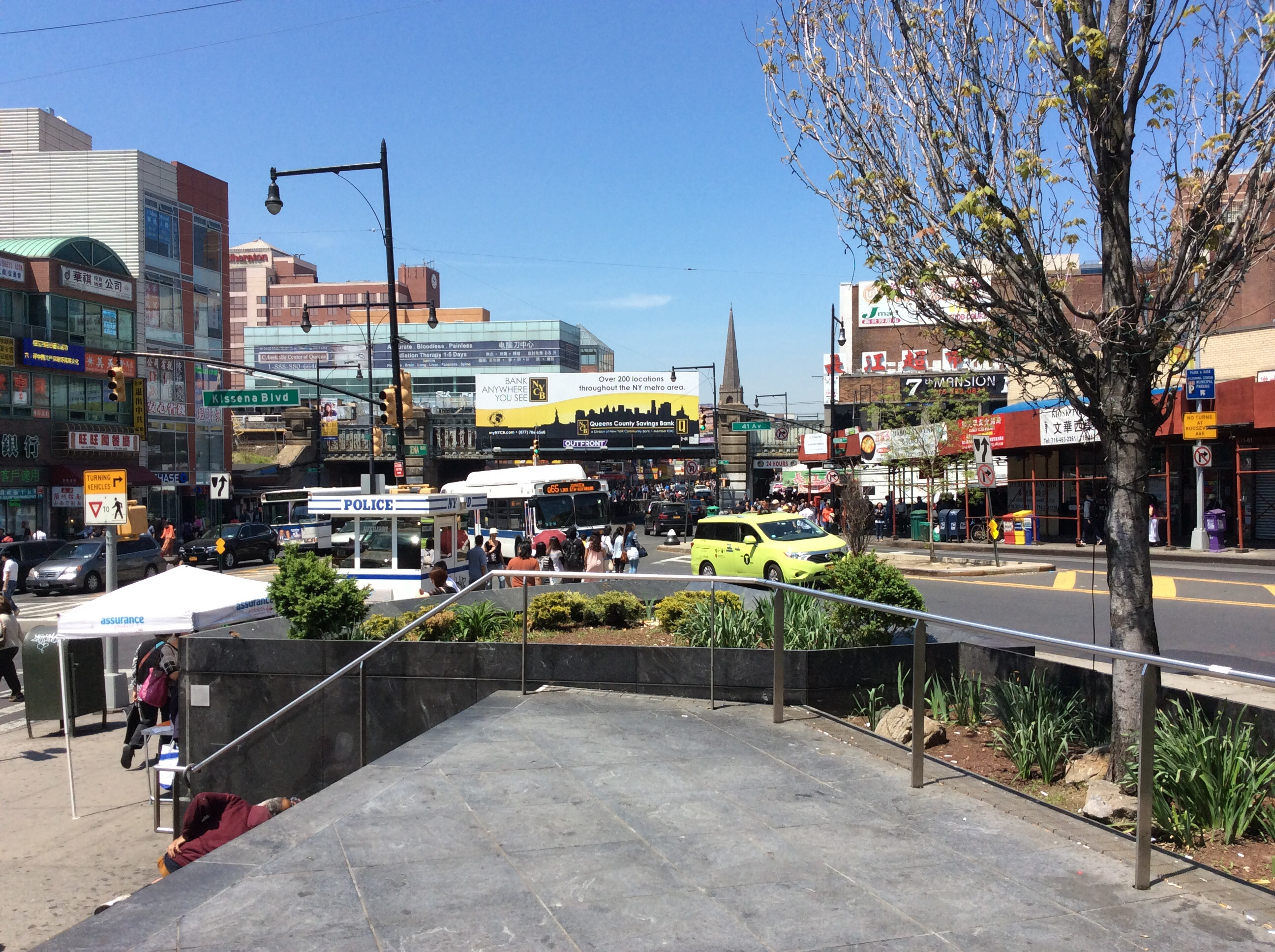 Street scene in Flushing, New York